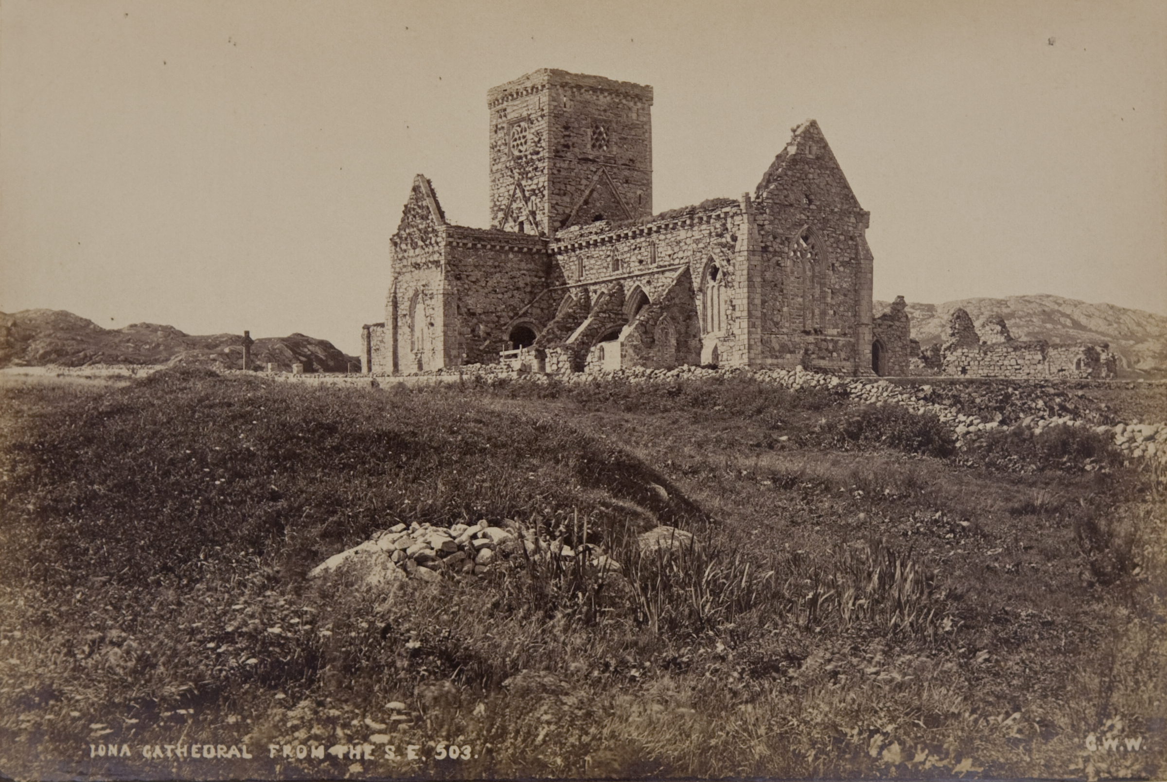 Title: Iona Cathedral from the S.E. Artist: George Washington Wilson Artist Bio: Scottish, 1823 - 1893 Creation Date: 1867 Process: albumen print Credit Line: Gift of James Garfinkel Accession Number: 1989.039.033